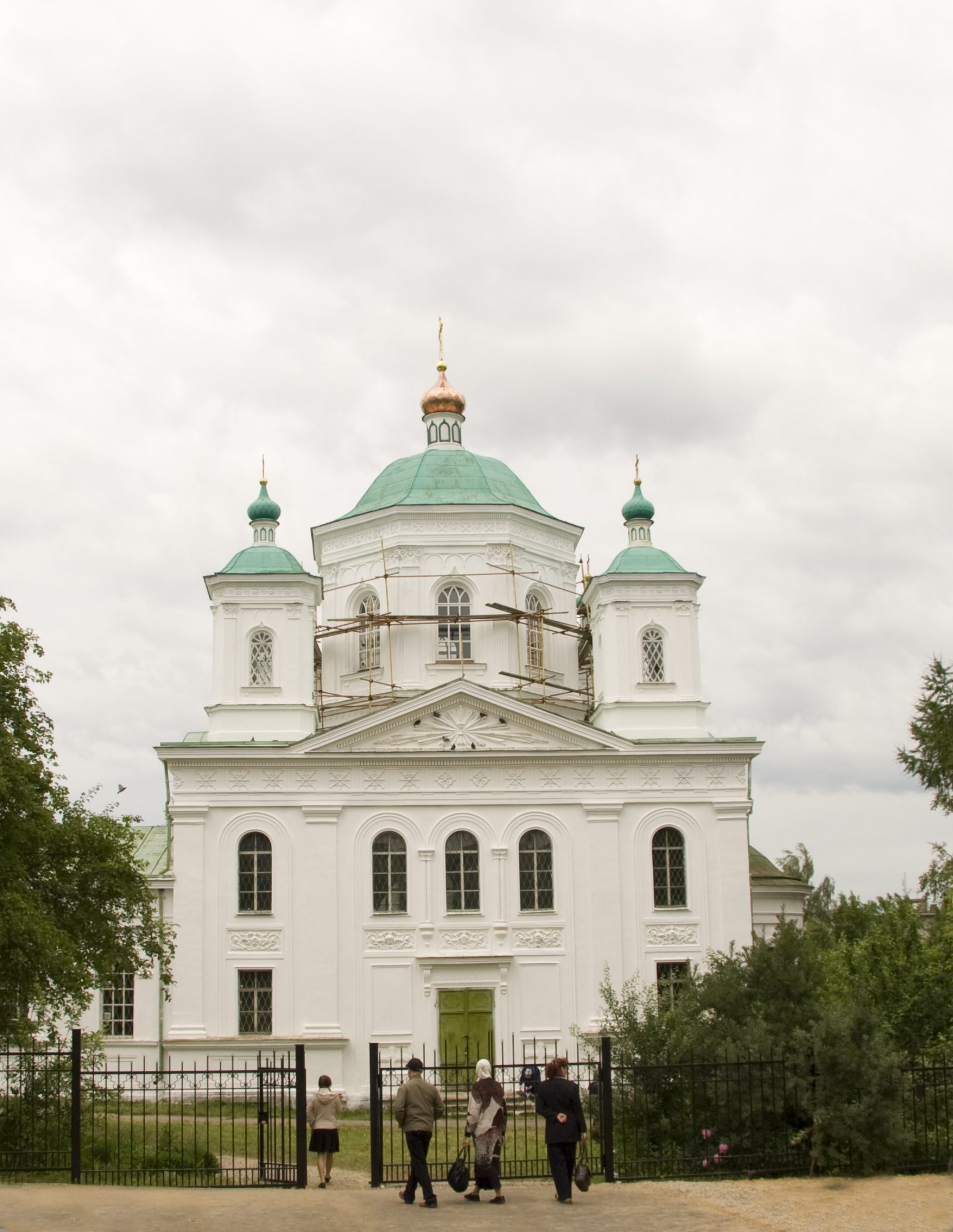 Ascension Cathedral (Kashin, Russia)